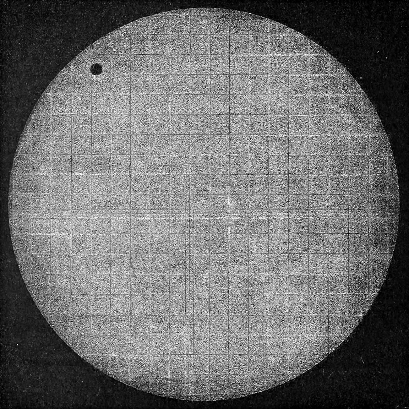 The 1874 transit of Venus seen from Japan, by Pierre (Jules) Janssen